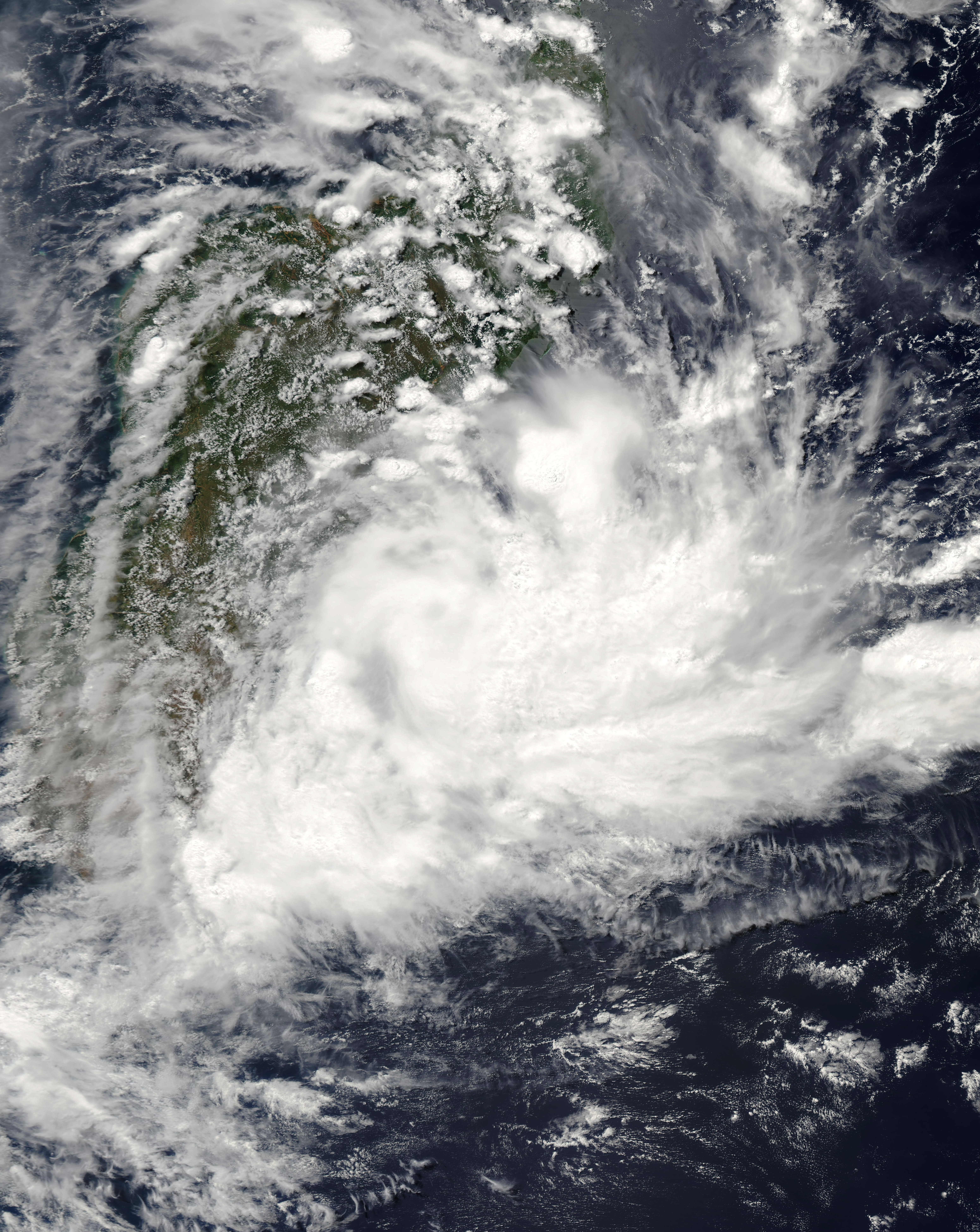 Tropical Cyclone Hubert hovered over the Indian Ocean off the east coast of Madagascar on March 10, 2010. In a bulletin released the same day, the Joint Typhoon Warning Center (JTWC) reported that Hubert was located roughly 160 nautical miles (300 kilometers) southeast of Antananarivo, Madagascar, with maximum sustained winds of 35 knots (65 kilometers per hour) and gusts up to 45 knots (85 kilometers per hour). The JTWC also reported, however, that the storm had begun to weaken and would continue to dissipate as it moved over land. The Moderate Resolution Imaging Spectroradiometer (MODIS) on NASA’s Aqua satellite captured this true-color image of Hubert on March 10, 2010. The storm lacks a distinct eye but nevertheless spans hundreds of kilometers, from the western shores of Madagascar past the island of Réunion.